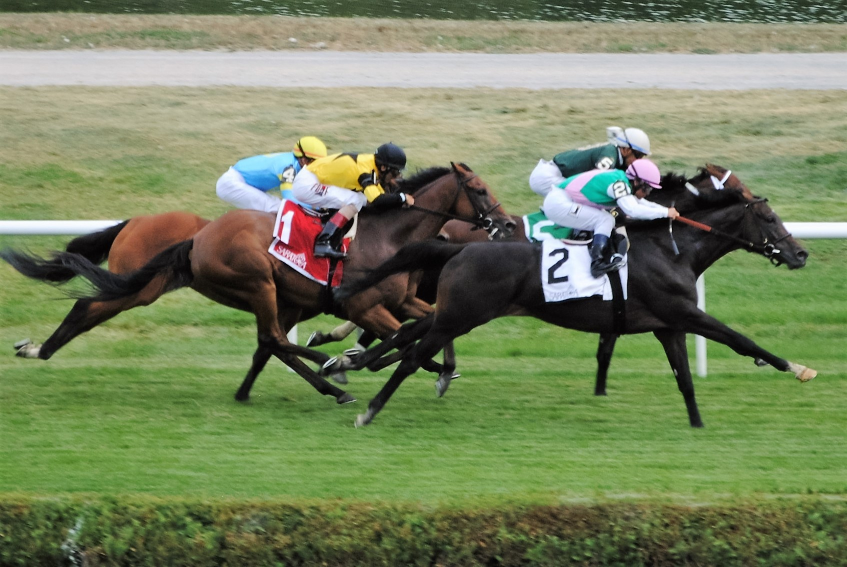 Flintshire strikes the lead in the 2016 Bowling Green Handicap at Saratoga racetrack